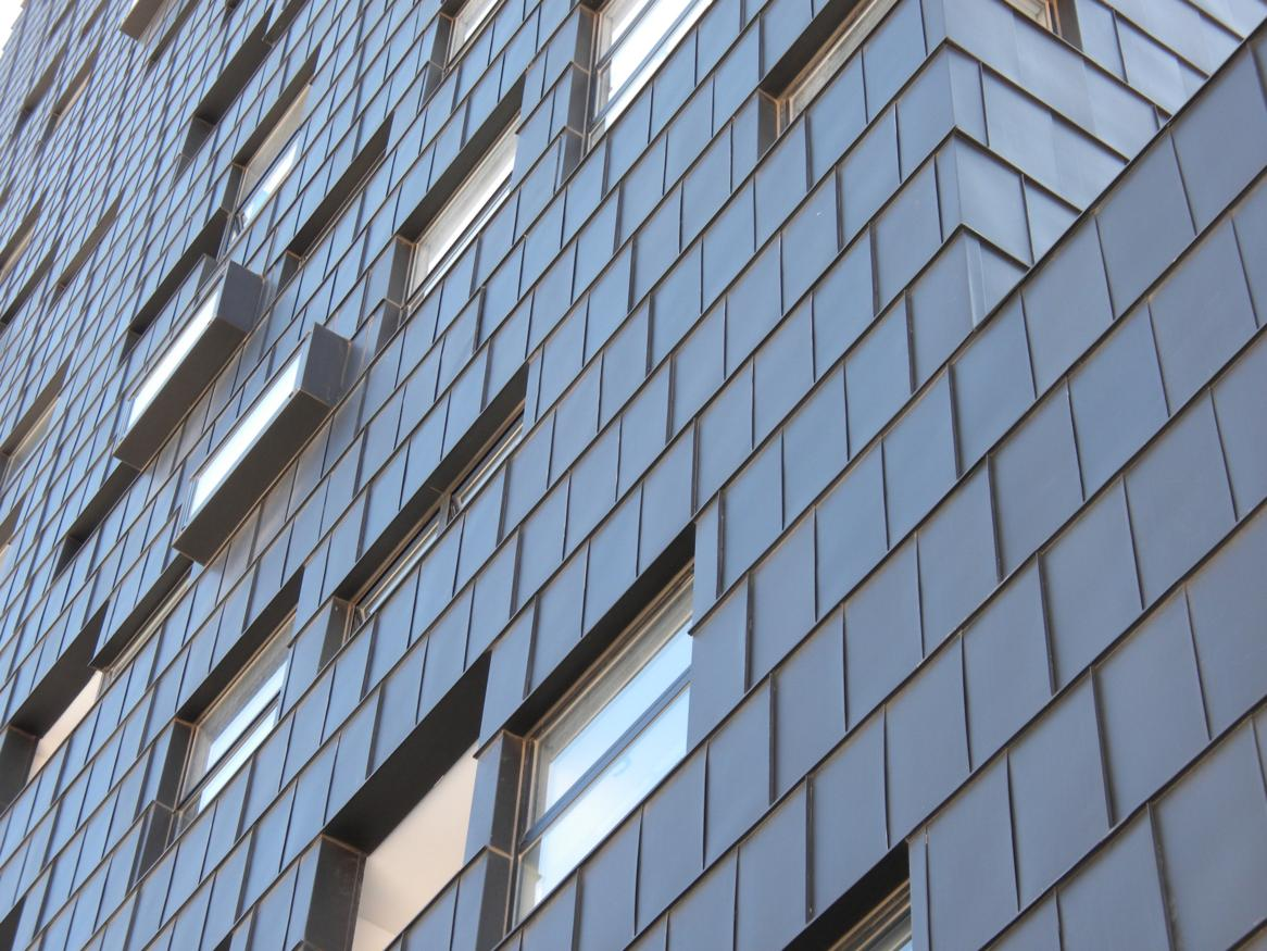 Partial view of the façade of Vallecas 20 building in Madrid (Spain).